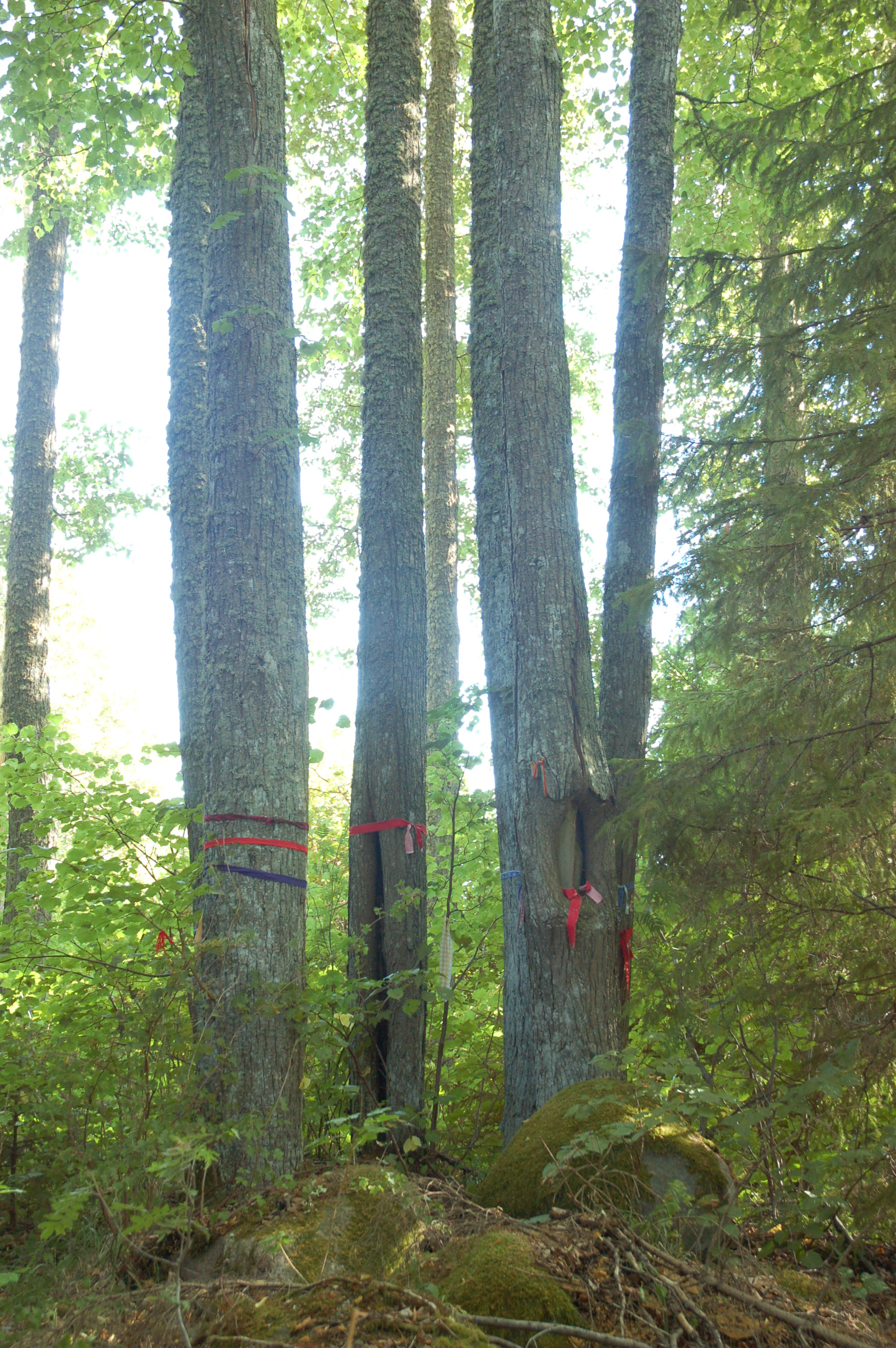 Sacred linden circle in Vihula, Estonia